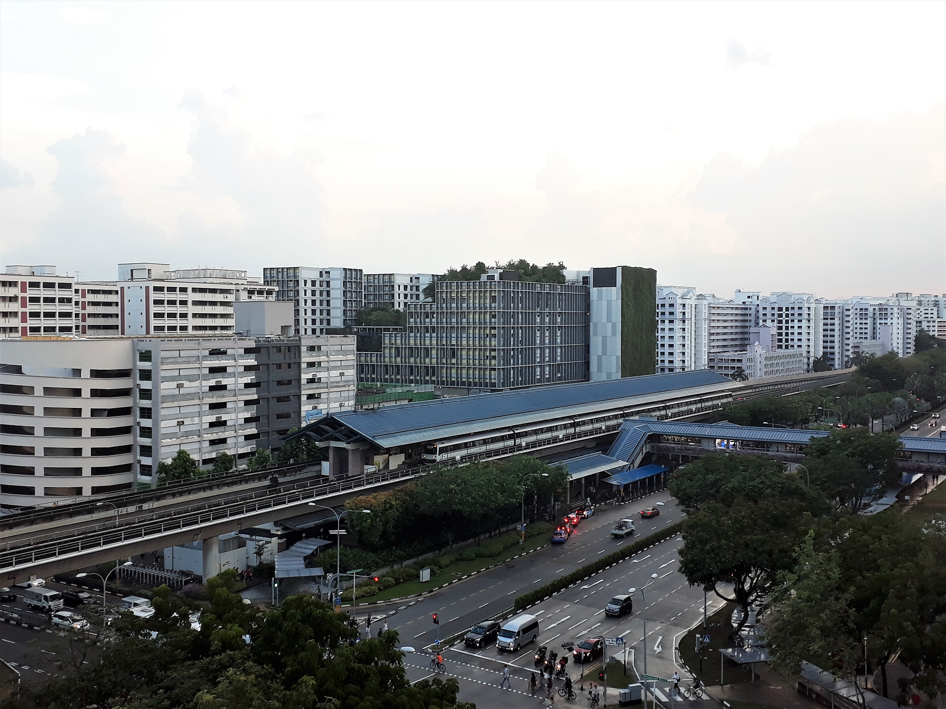 NS10 Admiralty with C151C